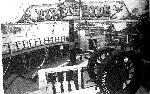 Cedar Point's Pirate Ride pictured in 1966. Pirate Ride was a pirate themed dark ride close to the Blue Streak queue. It formerly operated at Freedomland U.S.A but was relocated to Cedar Point in 1966. The ride transportation system was provided by Arrow Development Company. The ride closed in 1996.